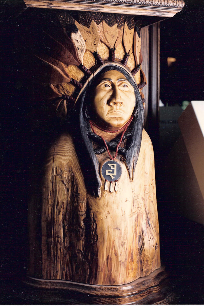 Multi-species Sal Maccarone wood sculpture in the round with inlaid authentic Native American Jewlery